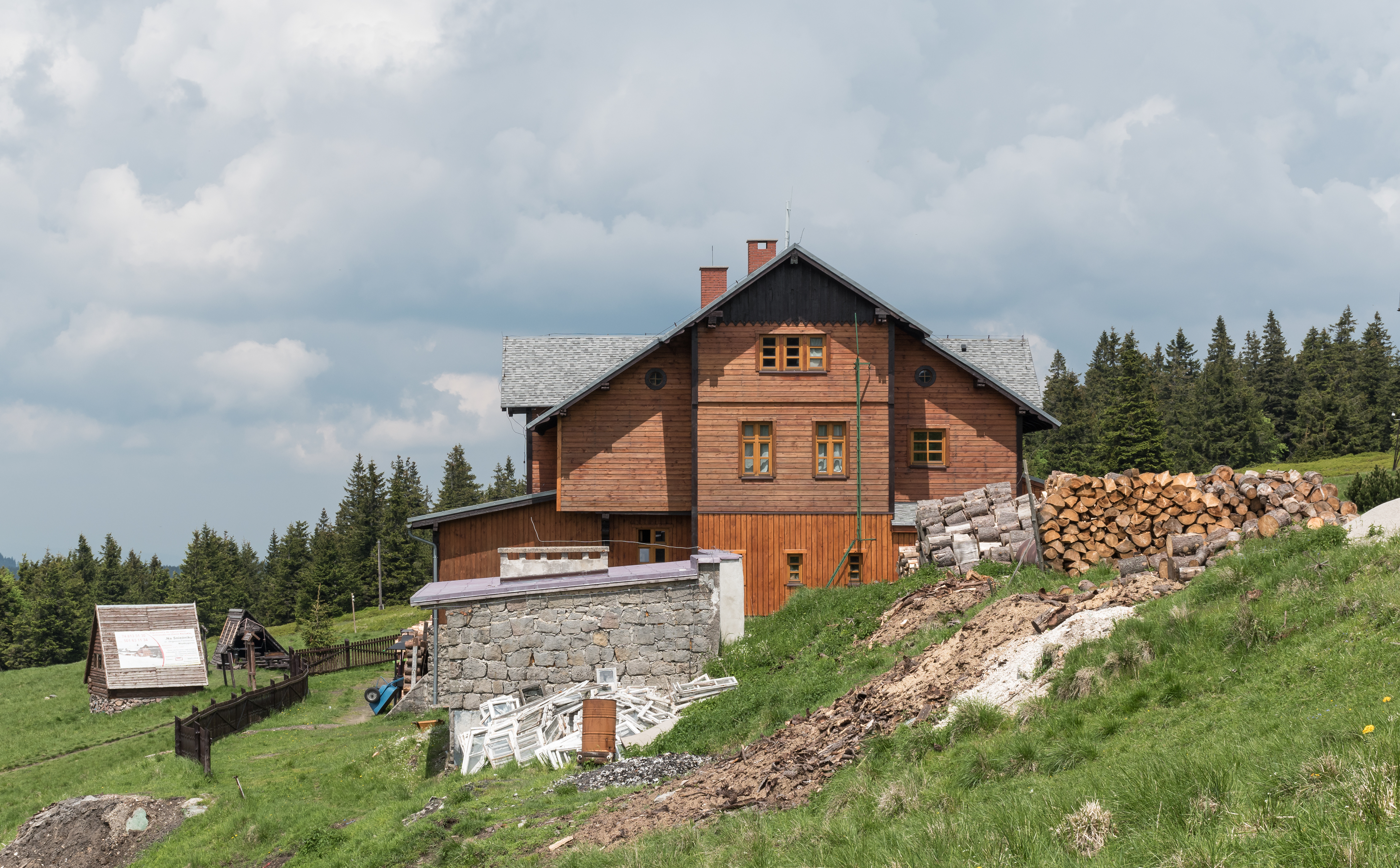 Na Śnieżniku hostel